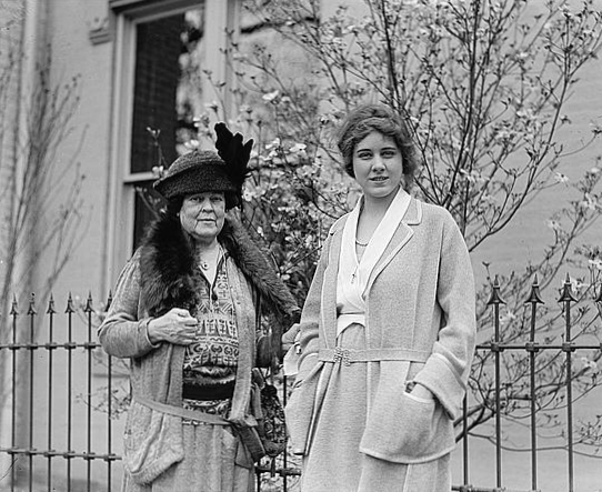 Mrs. O.H.P. Belmont & Miss Clara Boothe, 4/28/23